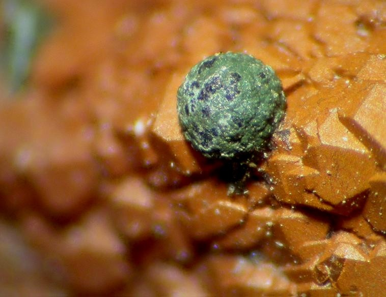 Natrodufrénite Locality: Greifenstein Rocks, Ehrenfriedersdorf, Erzgebirge, Saxony, Germany Field of view 3 mm. Specimen and photo Leon Hupperichs.